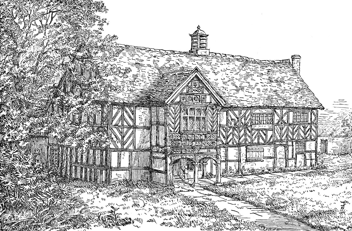 Engraving of the Old Grammar School, Nantwich, Cheshire; demolished in 1858